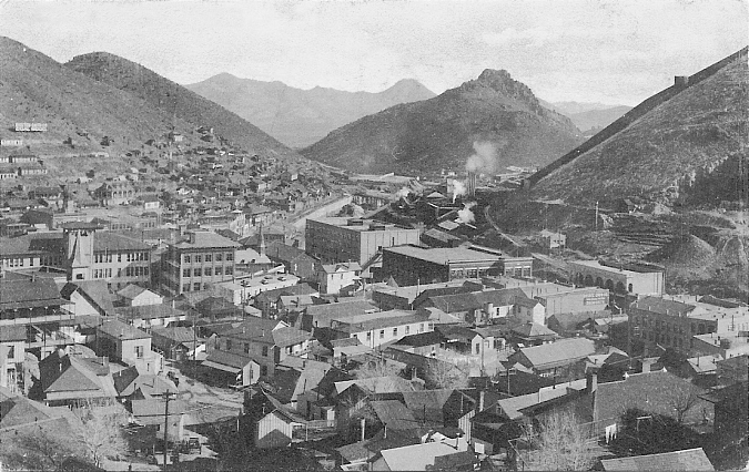 Postcard: Aerial view of Bisbee, looking east, circa 1909 (and someone wrote "1909" on the picture)